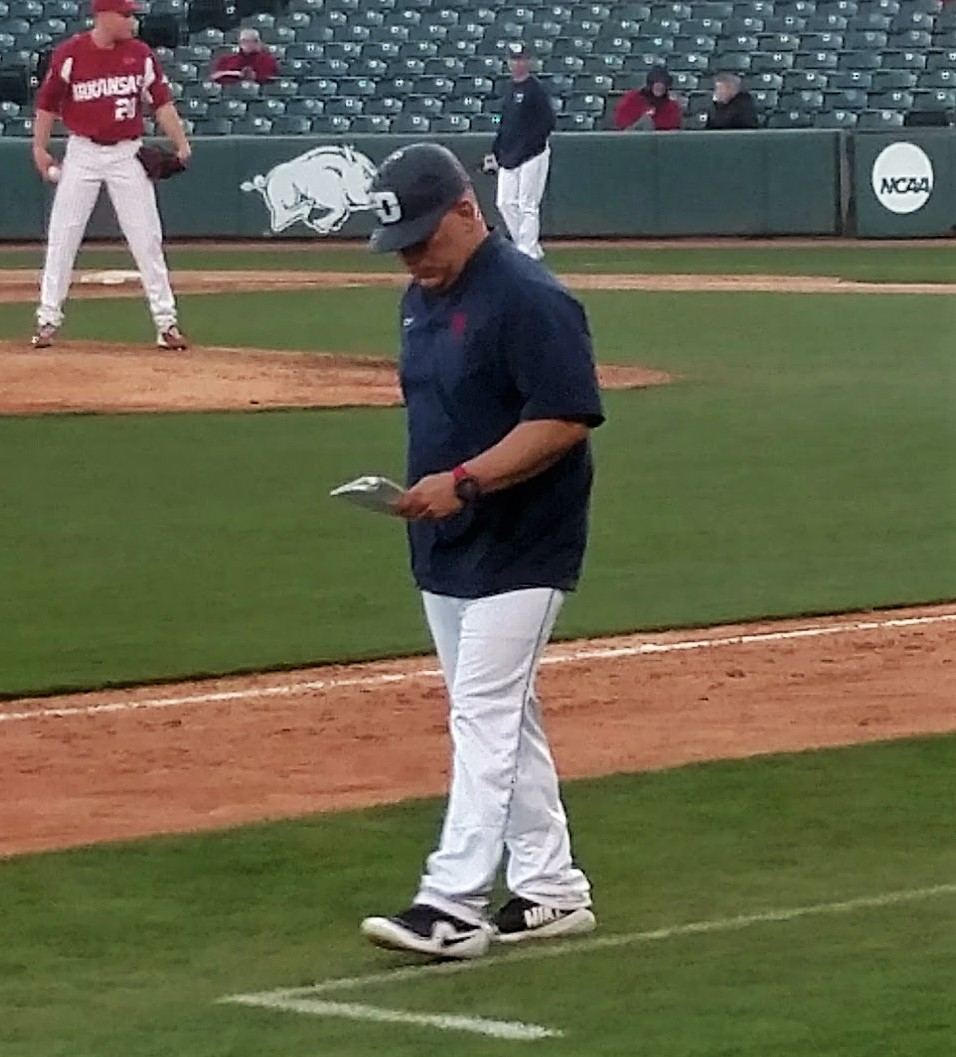 University of Dayton head baseball coach Jayson King coaches against the University of Arkansas at Baum Stadium